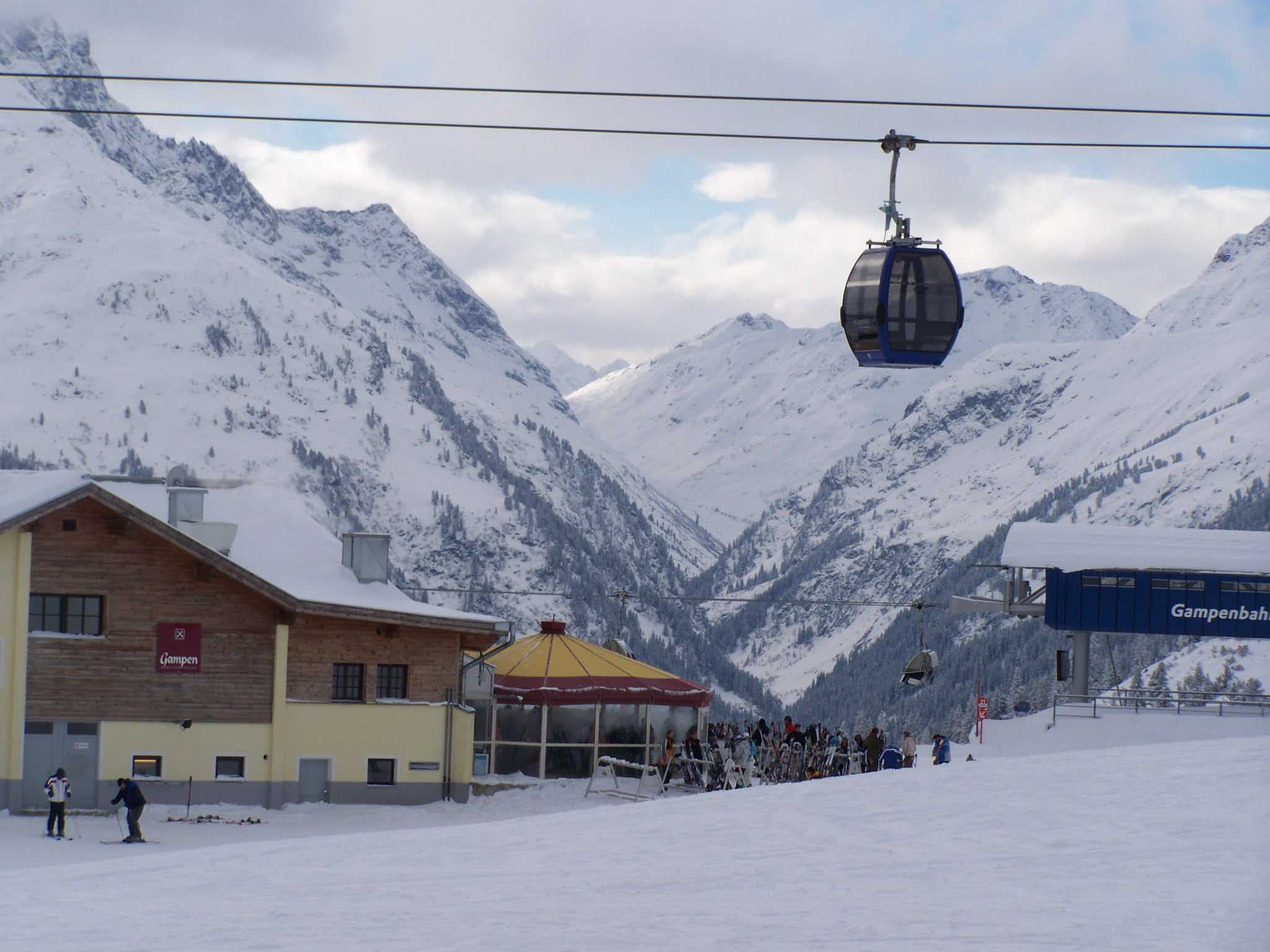 The Nassereinbahn over St. Anton am Arlberg